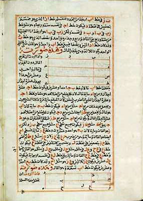 A manuscript of Karajî's book, Fakhrî which is written in the 11th century.